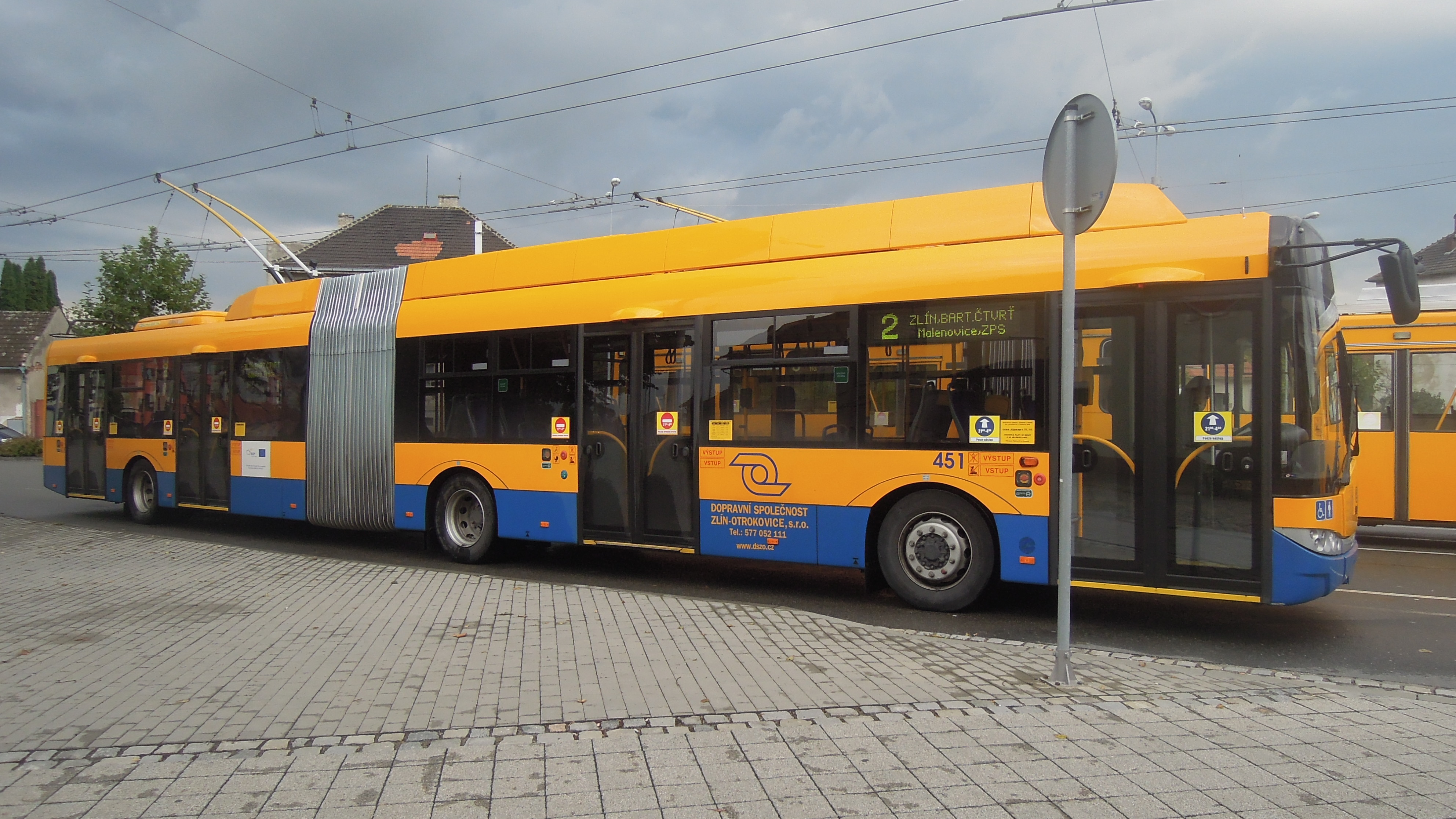 Trolleybus Škoda 27Tr Solaris of DSZO in Otrokovice , Zlín Region, Czech Republic